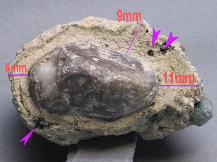 recent oncoid Locality: river "Obere-Alz", Truchtlaching, Bayern, Southern Germany Size:4.5 x 3.5 x 3.0cm recent onkoid, with nucleus, covered with laminat, enveloping biofilm produced by cyanobacteria